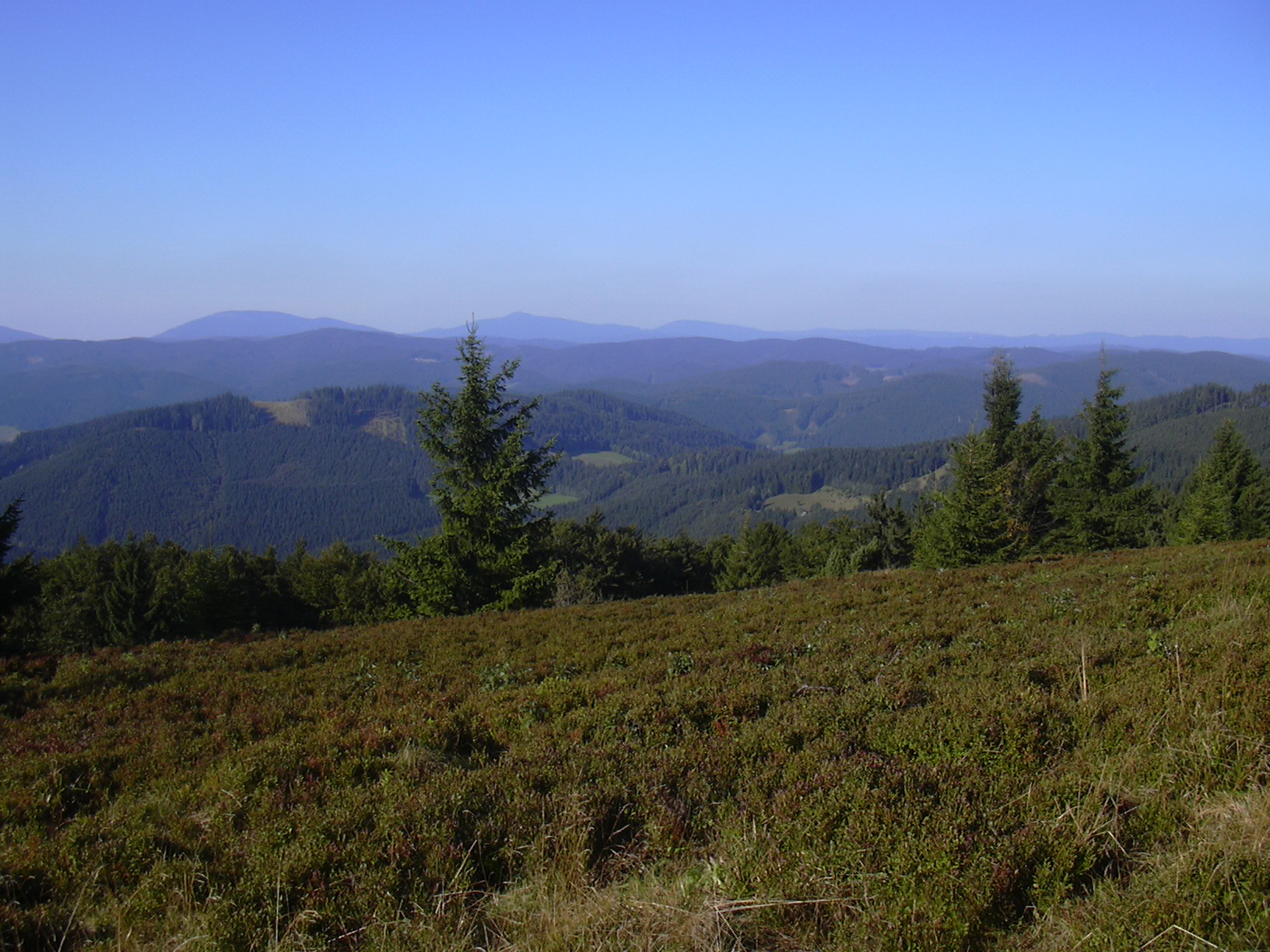 Smrk and Lysá hora in Beskydy seen from the ridge of Javorníky mountains